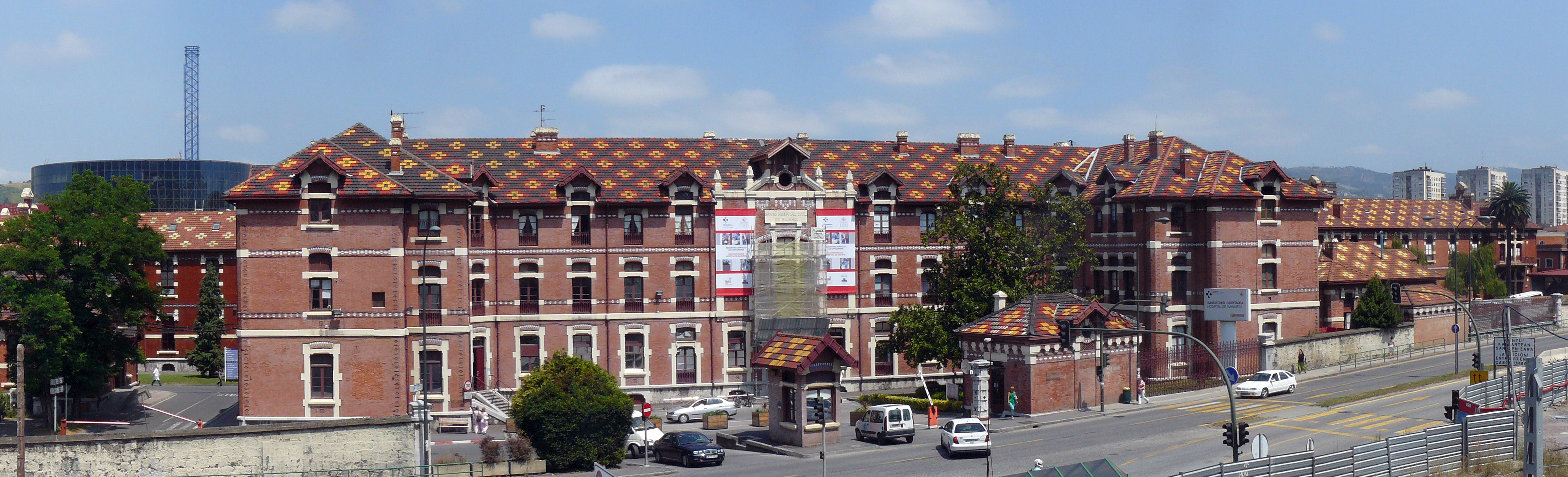 Basurto Hospital, Bilbao, Spain.